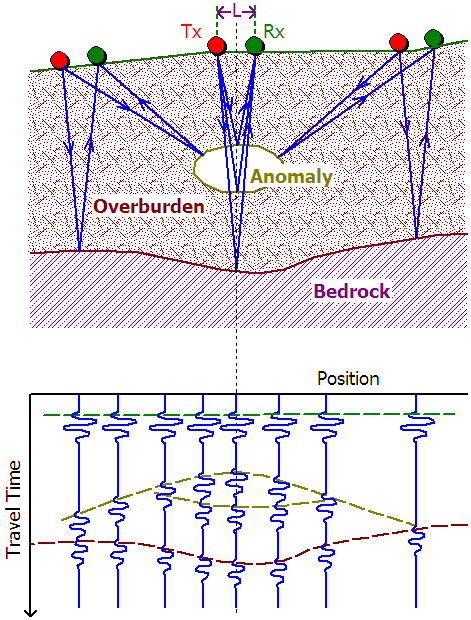 Oulines of Ground Penetrating Radar survey